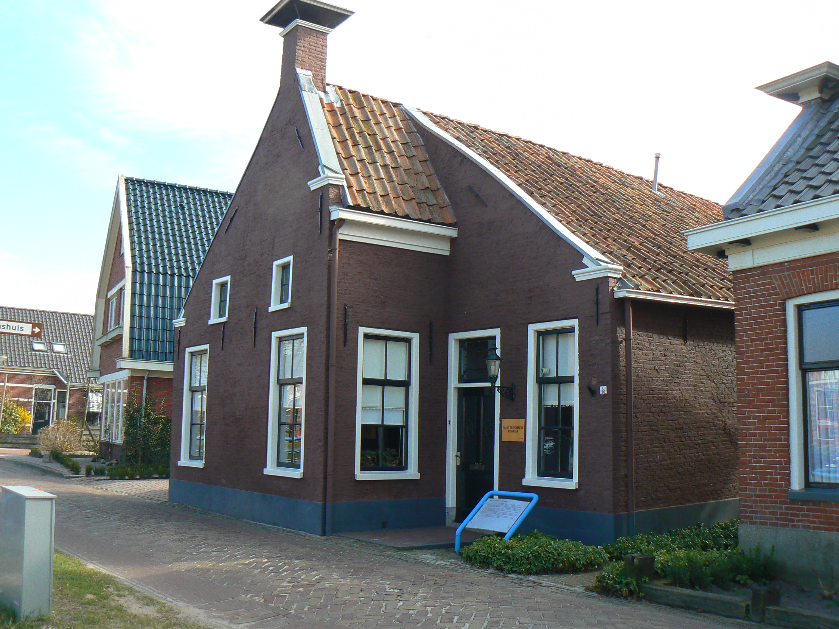 Museum Kapiteinshuis Pekela in Nieuwe Pekela/The Netherlands